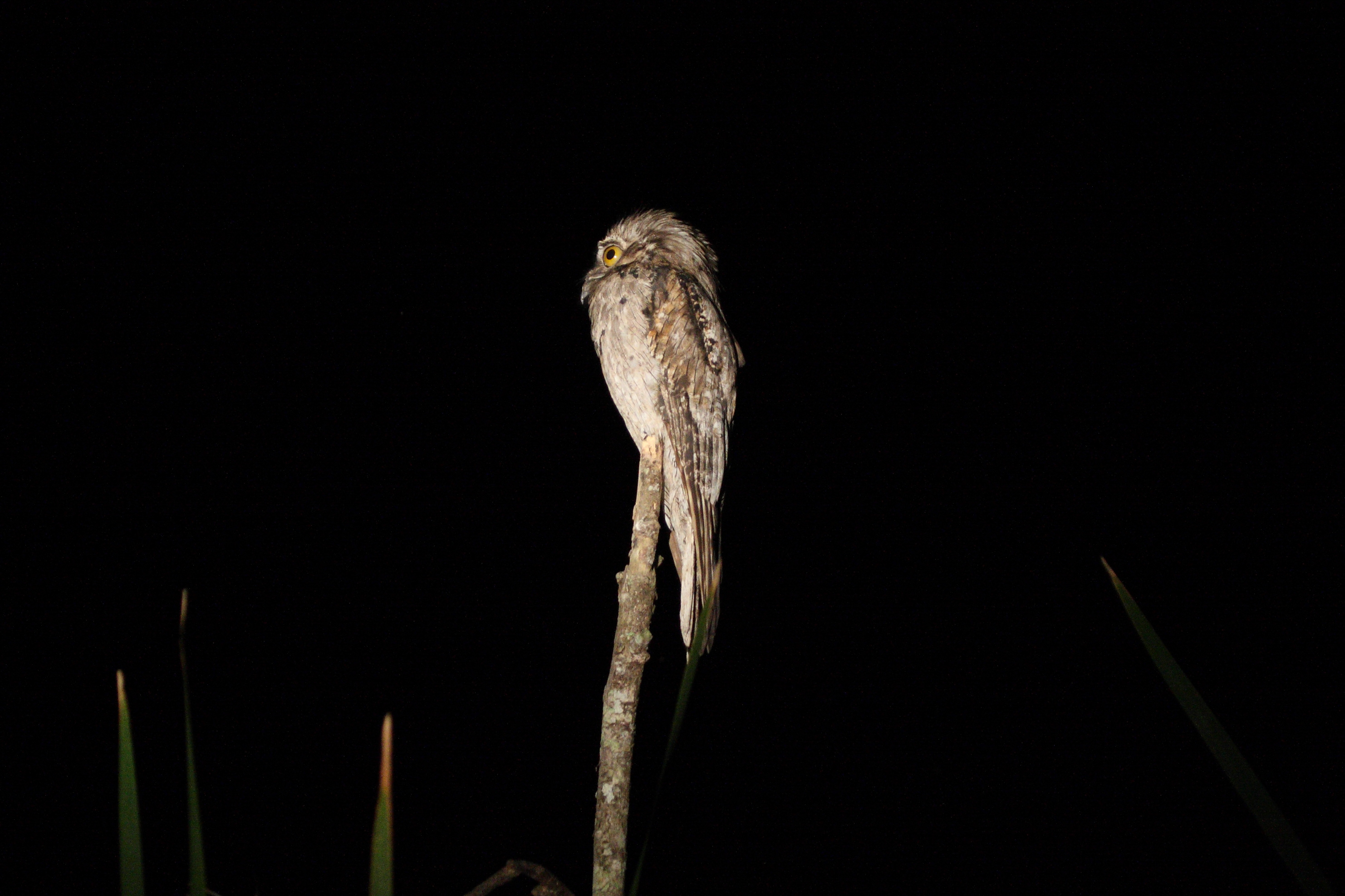 Northern Potoo (Nyctibius jamaicensis)